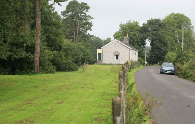 The Former Avonwick Station